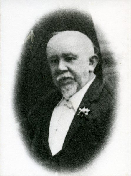 Owner and developer of the Coogee Hotel, Western Australia